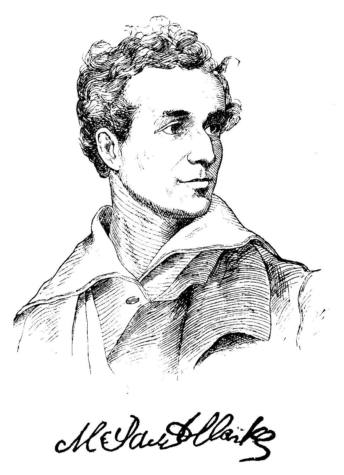 Drawing of McDonald Clarke, the mad poet of New York city.